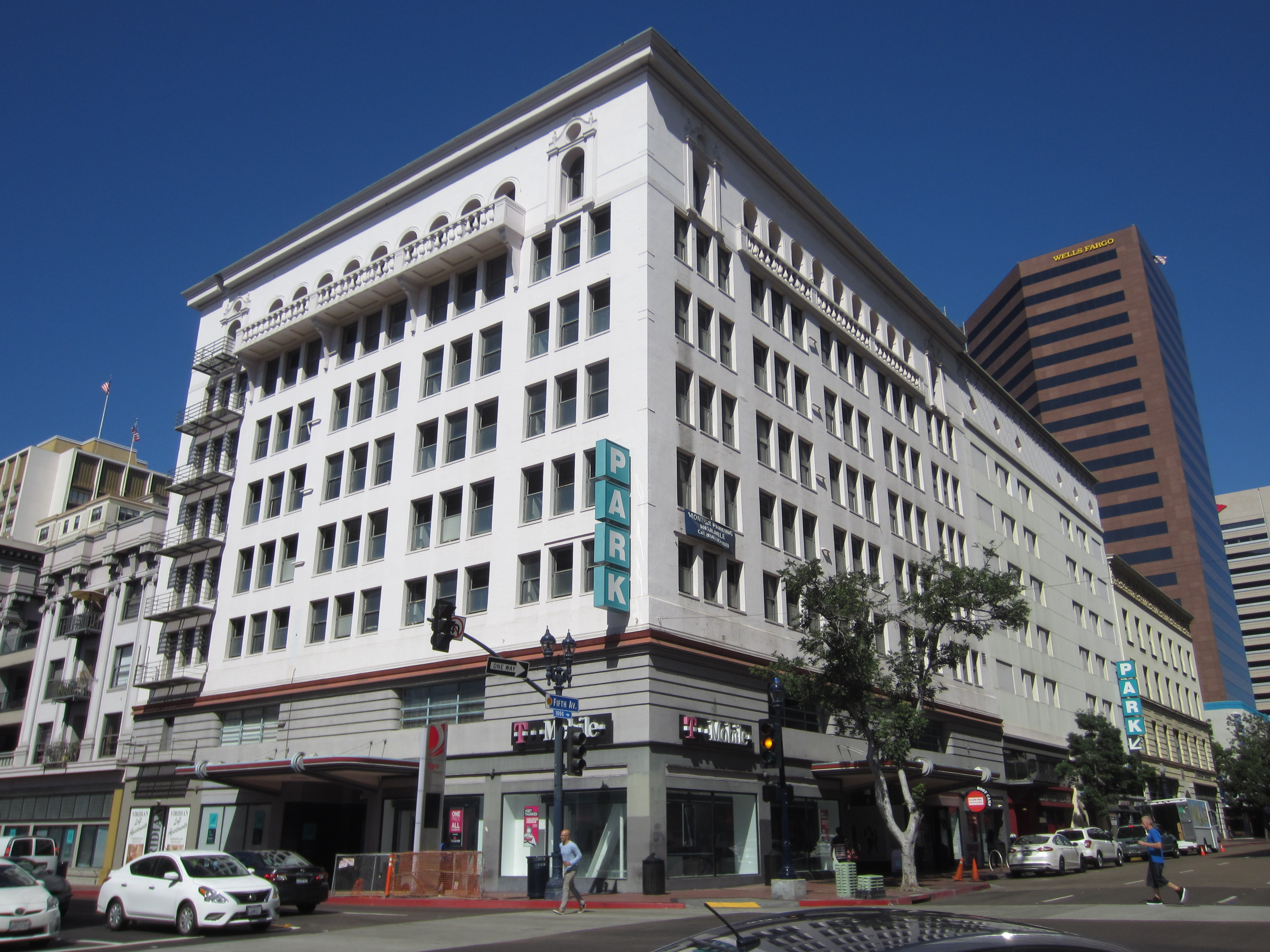 San Diego, 2016